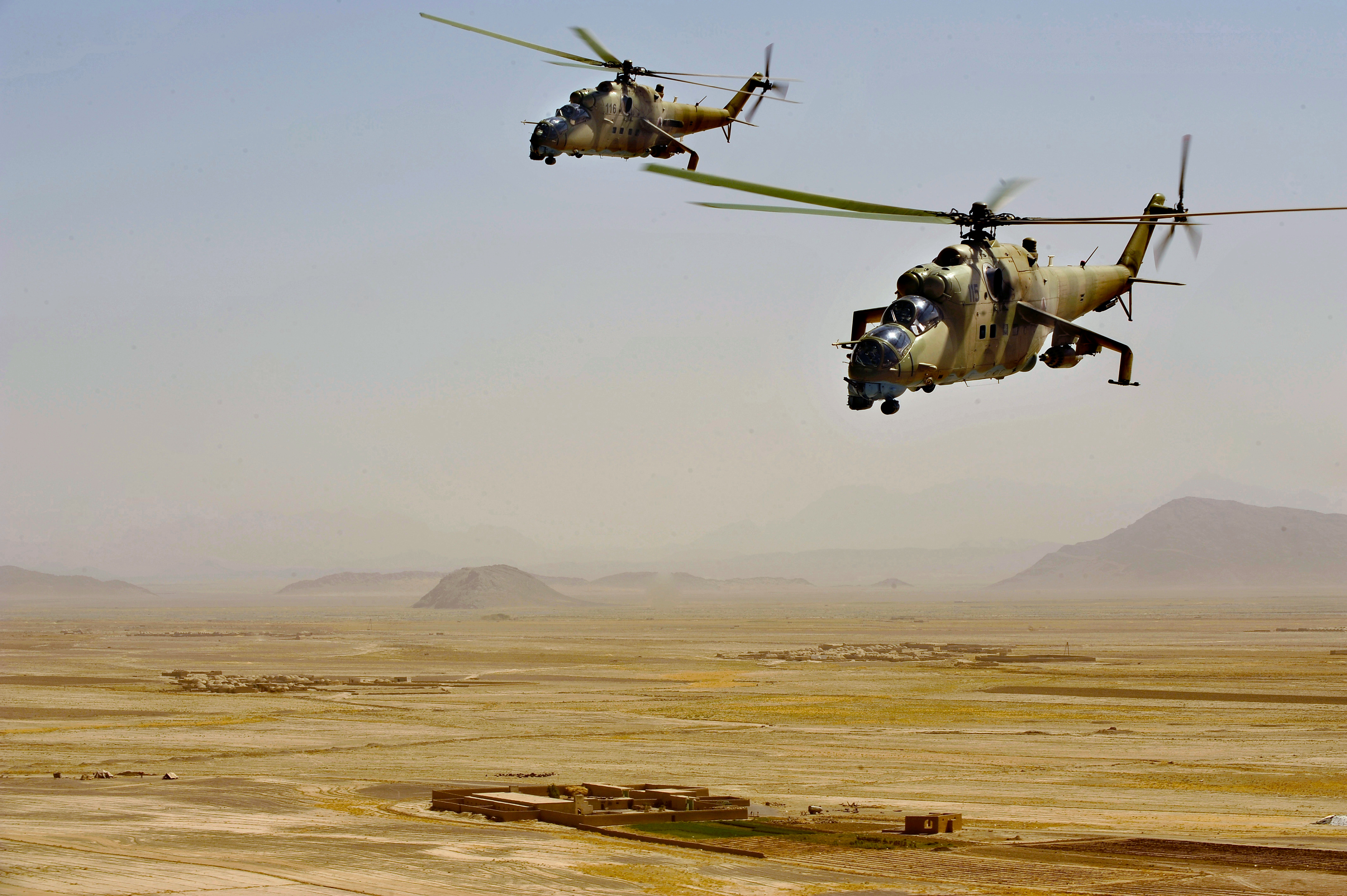 Afghan National Army Air Corp Airmen pilot two Mi-35 helicopters during a training sortie, with support from Czech Republic and U.S. coalition partners, over southern Afghanistan Oct. 3, 2009. (U.S. Air Force photo/Staff Sgt. Angelita Lawrence)